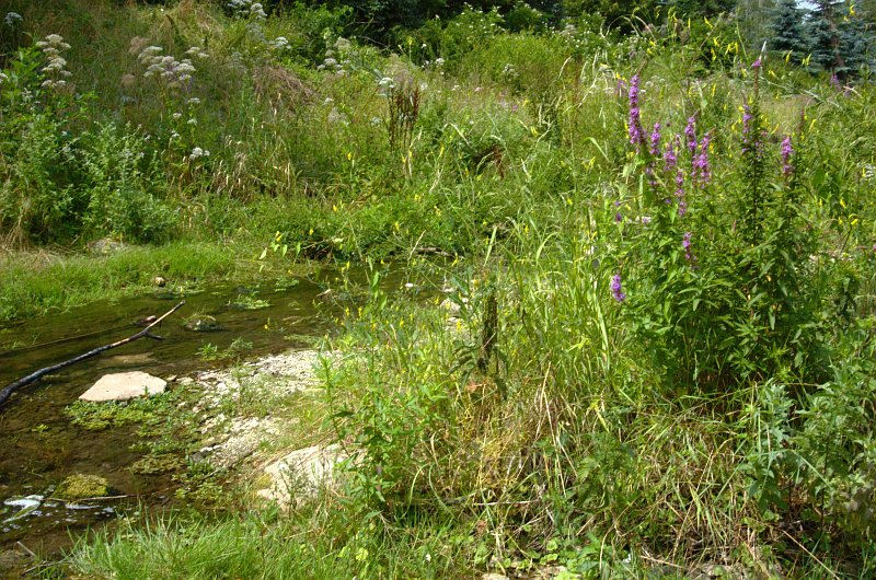 Chvojnica river in Oreské